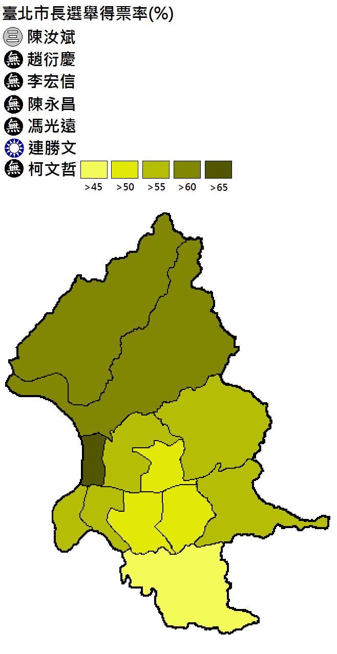 Taipei 2014